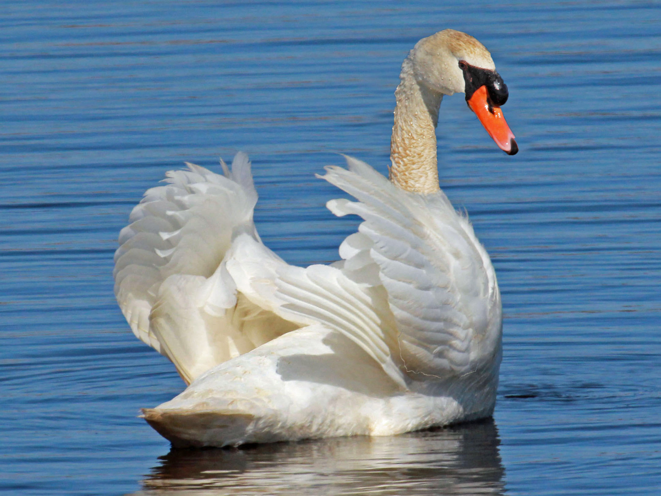 Mute Swan (Cygnus olor) at Cape May, New Jersey